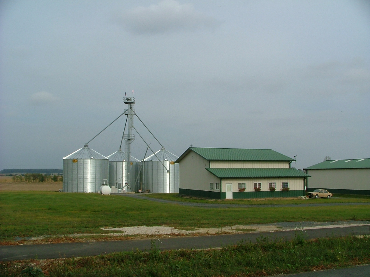 Gyalóka, Site of the Majorság Co.